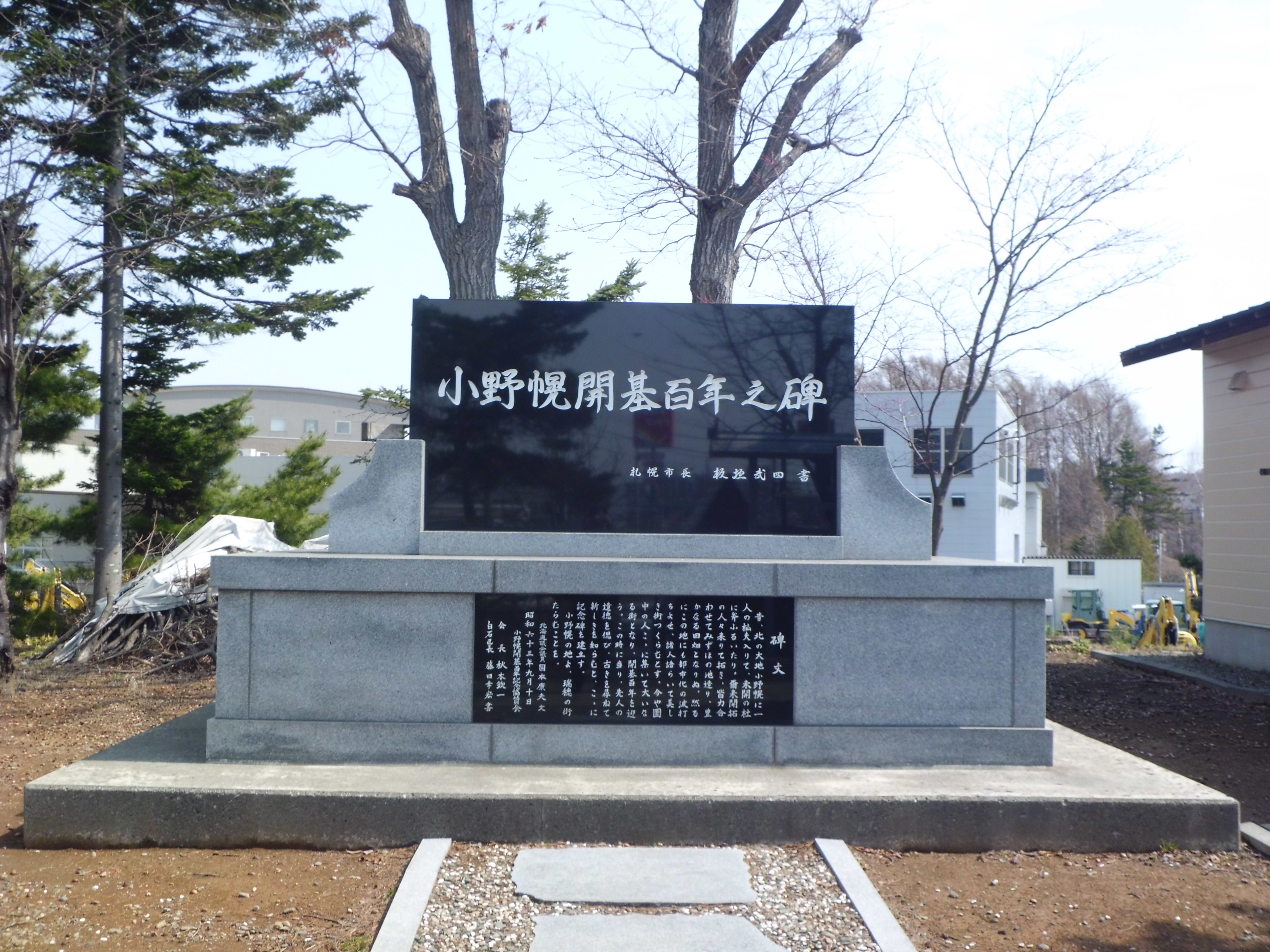 Konopporo Centennial Monument at Konopporo Shrine.